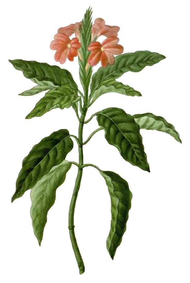 Part of the plate depicting Crossandra undulaefolia from t. 12, The Paradisus Londinensis. Original scan processed to improve colour and remove background of yellowed paper.